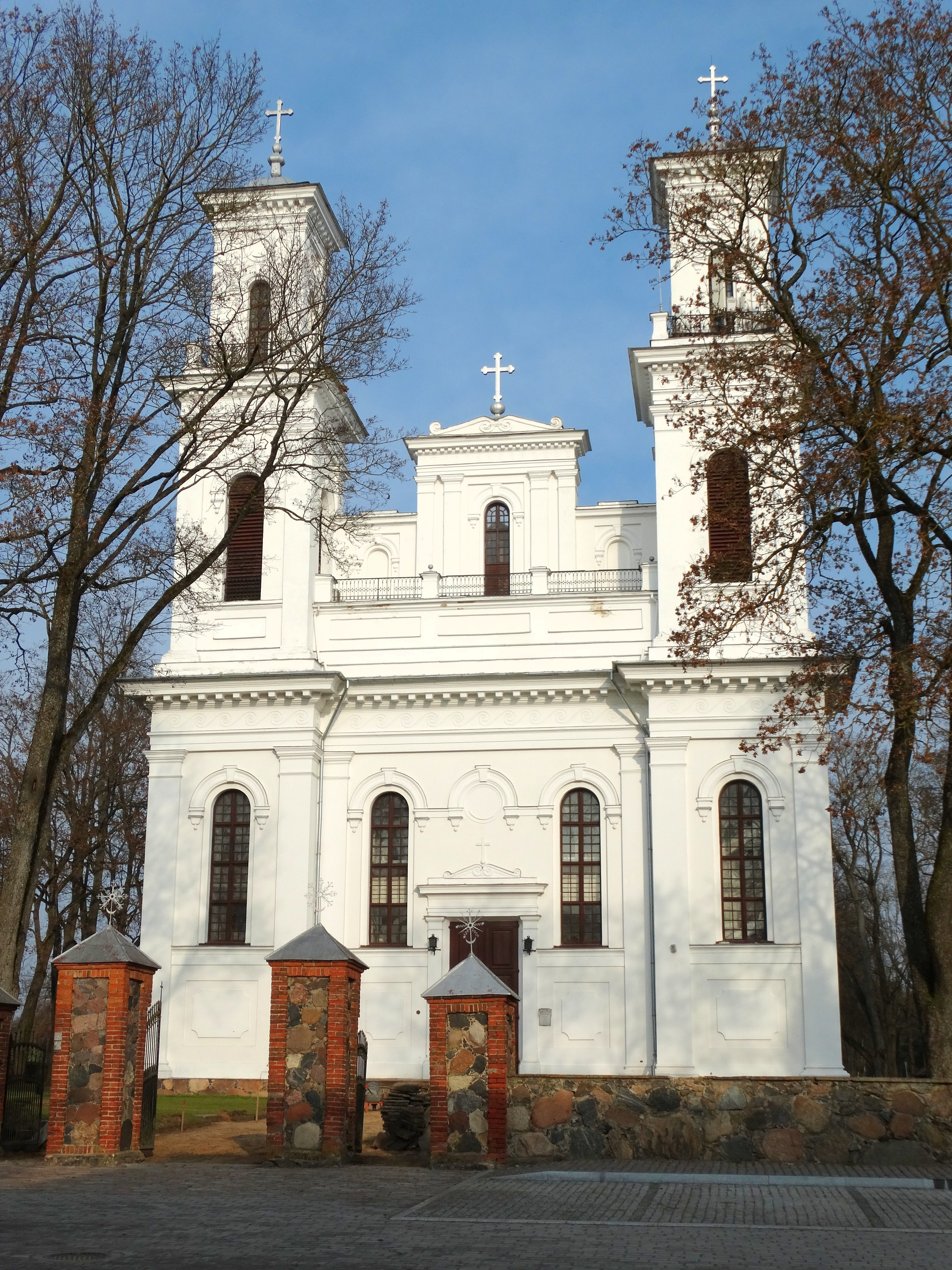 Roman Catholic Church, Biržai, Lithuania